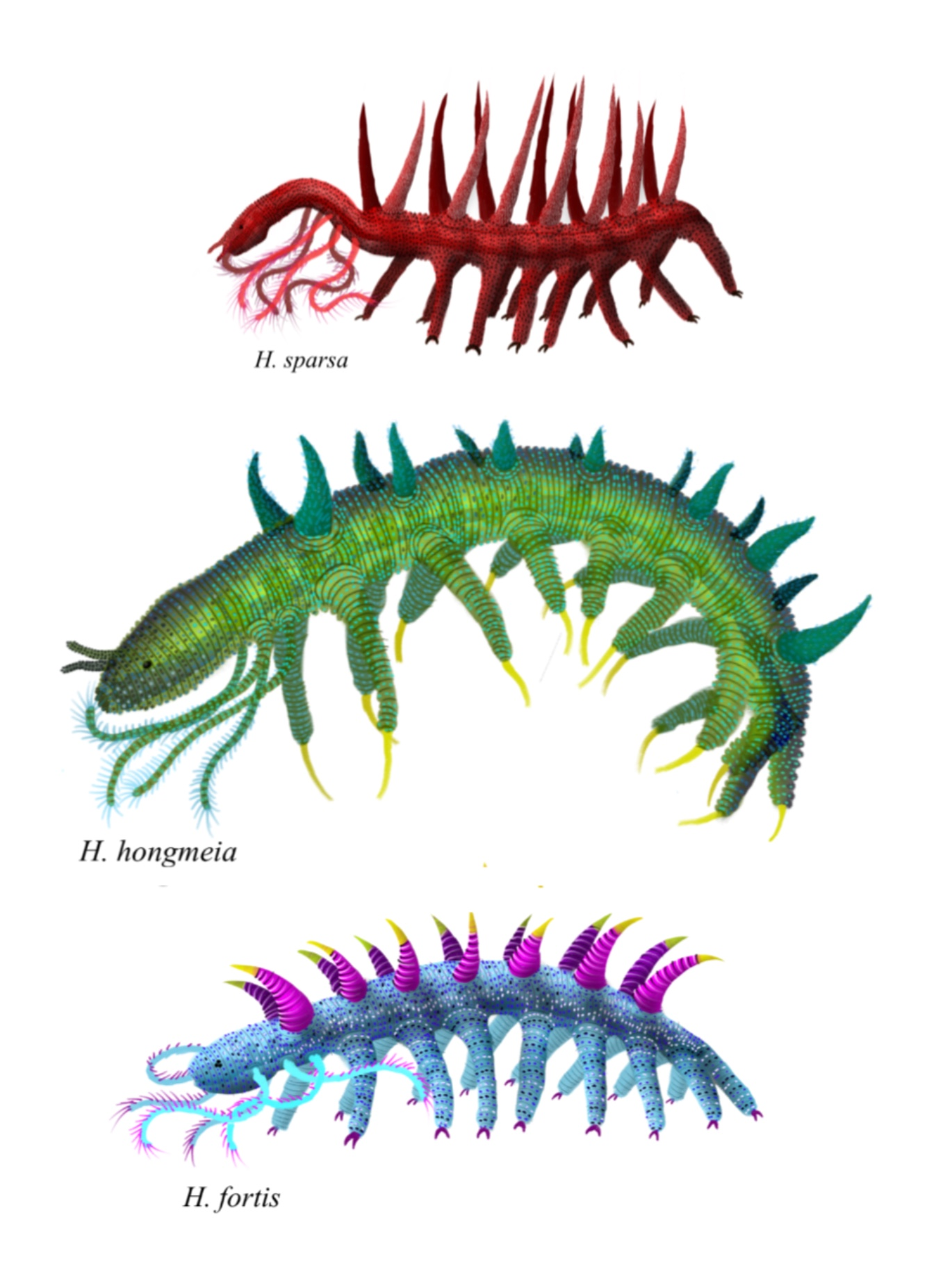 A size-accurate chart showing all three species of Hallucigenia. Based on McCall, 2019 (